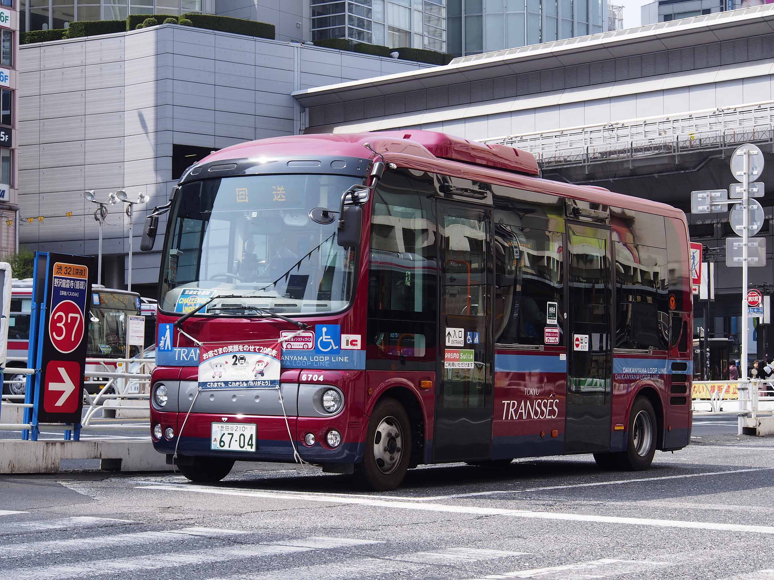 Fleet of Tokyu Transses, 3rd generation fleet for Daikan-yama Loop Line. Model: Hino Poncho 2DG-HX9JLCE License plate: TKG210 A6704 Place: Shibuya Station West